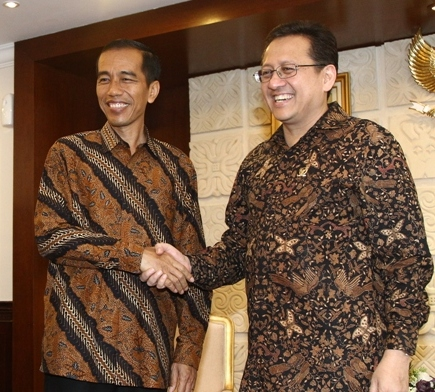 The Governor of Jakarta, Joko Widodo, shaking hand with chairman of DPD, Irman Gusman.